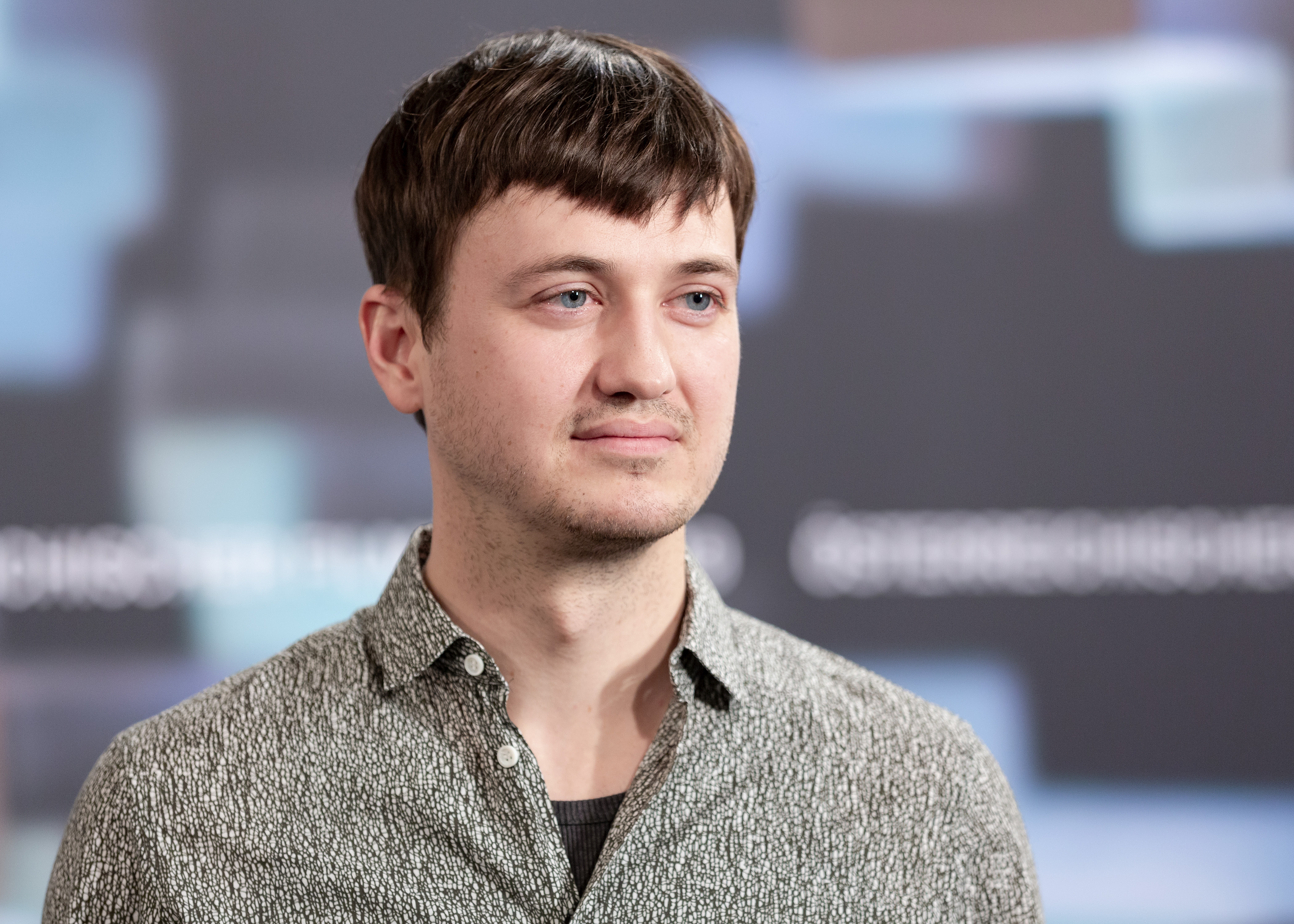 Hjalti Bager-Jonathansson (sound design "L’Animale"), photo call at the Austrian Film Awards 2019 (Rathaus, Vienna,Austria).